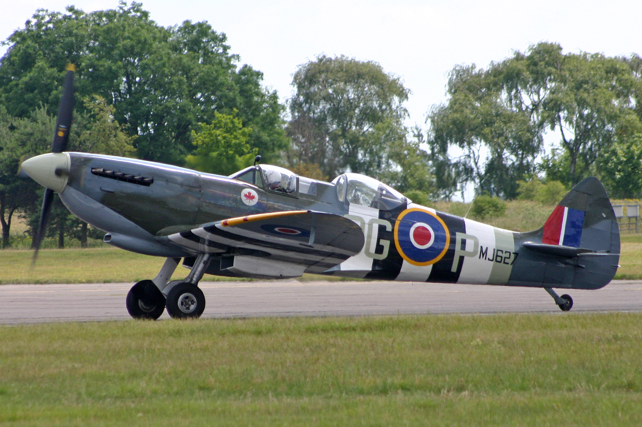 Lining up for take-off. Based at East Kirkby. Also ex Irish Air Corps 158. CBAF.7722. Lining up to take off for display at 2011 Waddington Airshow